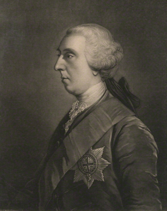 Portrait of James Waldegrave, 2nd Earl Waldegrave